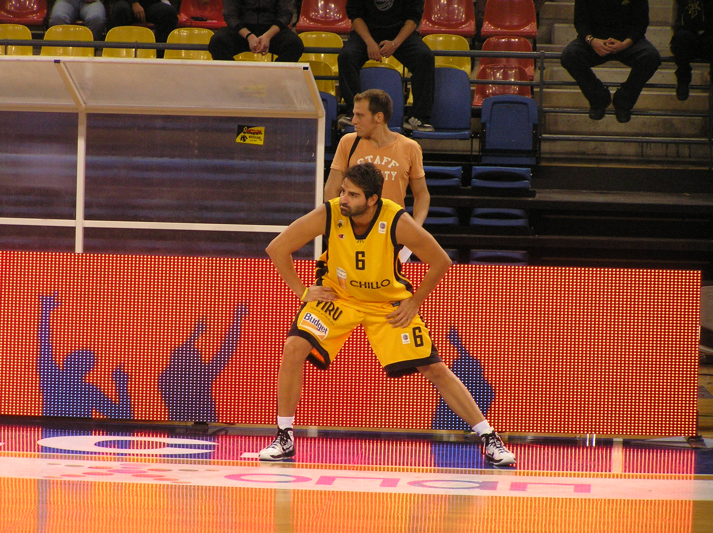 Prodromos Nikolaidis vs Ikaros